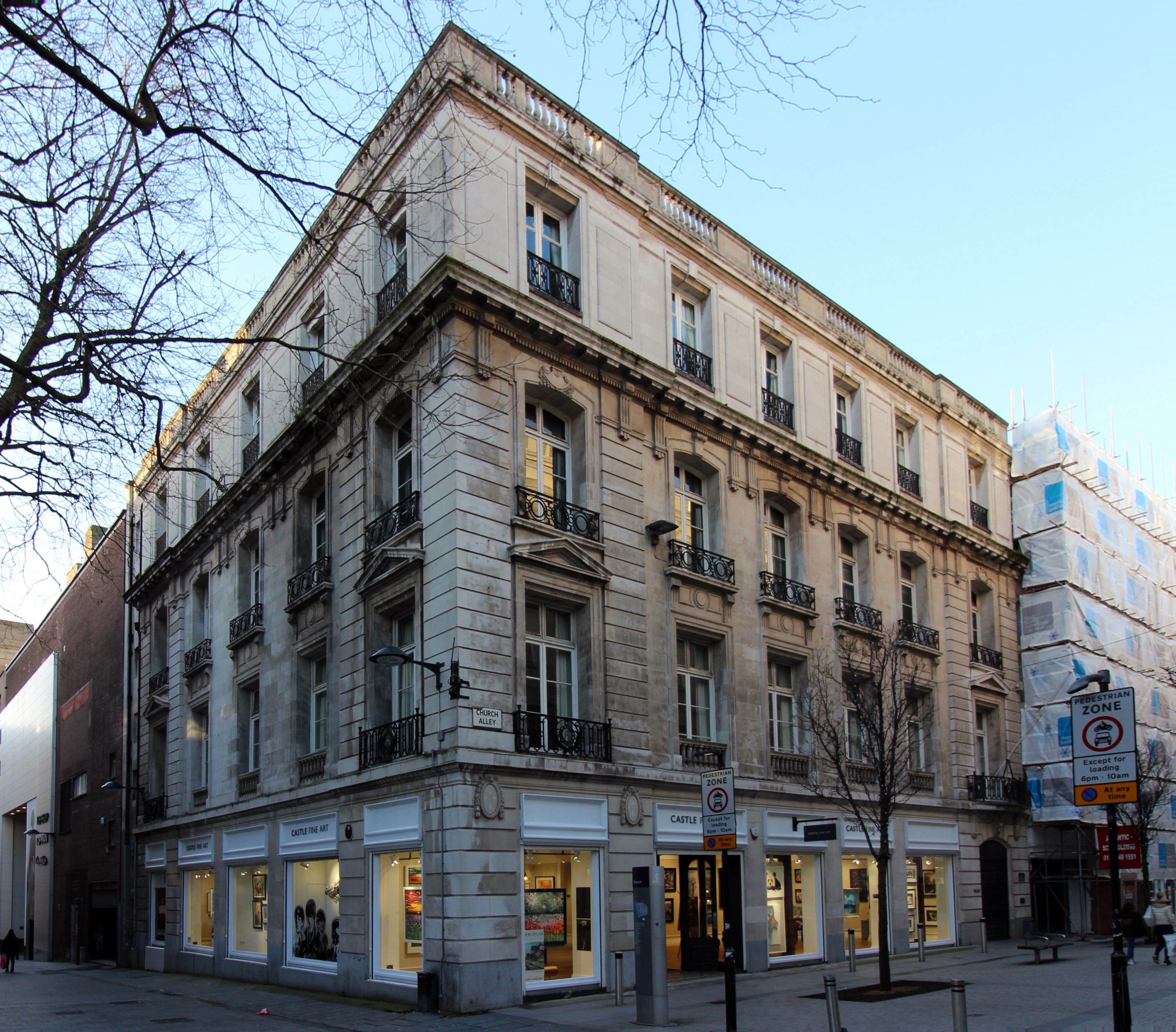 View down School Lane side (left) and Church Alley (right) from the front of the Bluecoat.